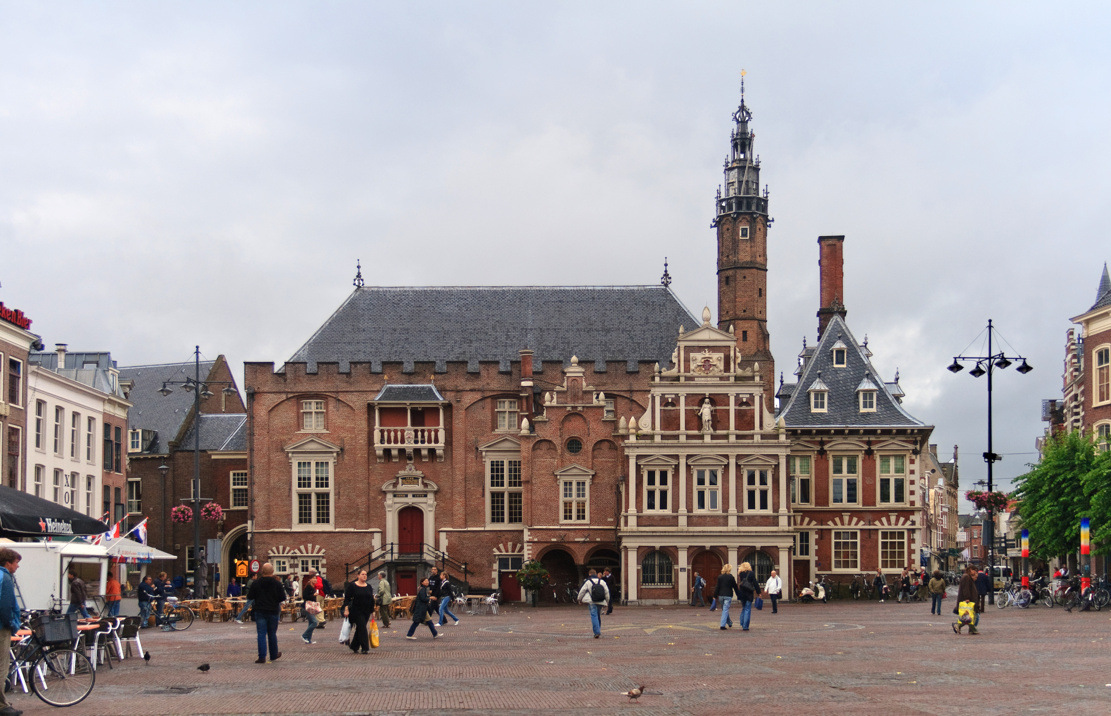 Haarlem, City Hall